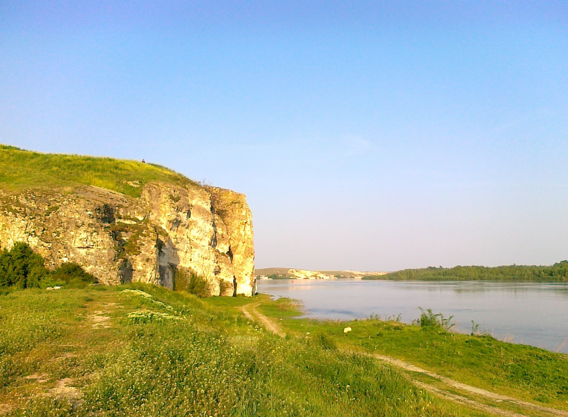 Cliffs at the Danube by the town of Hârşova, Constanţa county, Romania. Ruins of the roman castle Carsium at the top of the cliff.